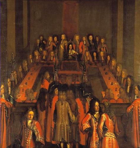 Christian V presiding over the Supreme Court, presumably painted in 1697. The painting hangs at Rosenborg Castle in Copenhagen.